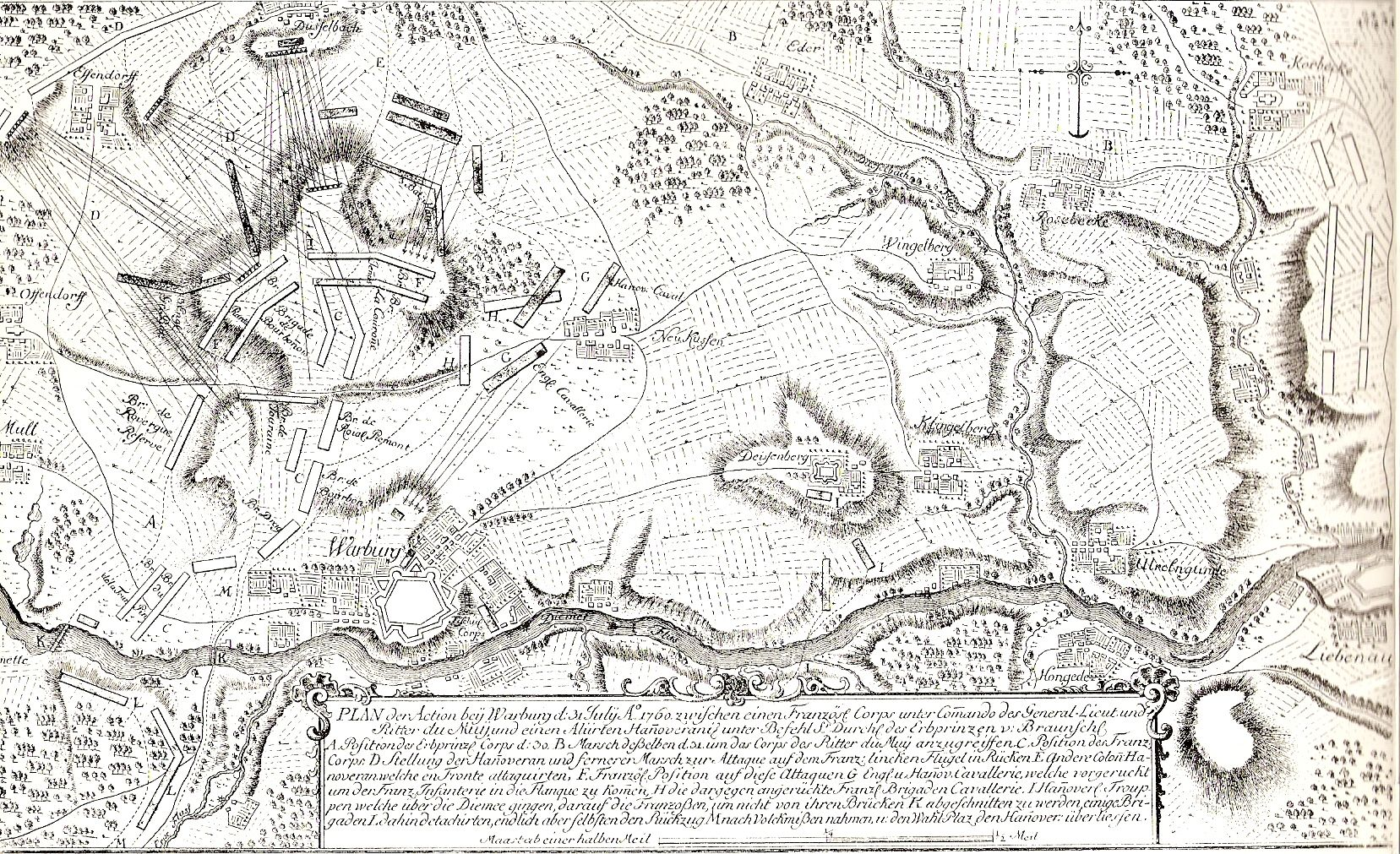 Plan der action beÿ Warburg d. 31.Julÿ A.˚ 1760